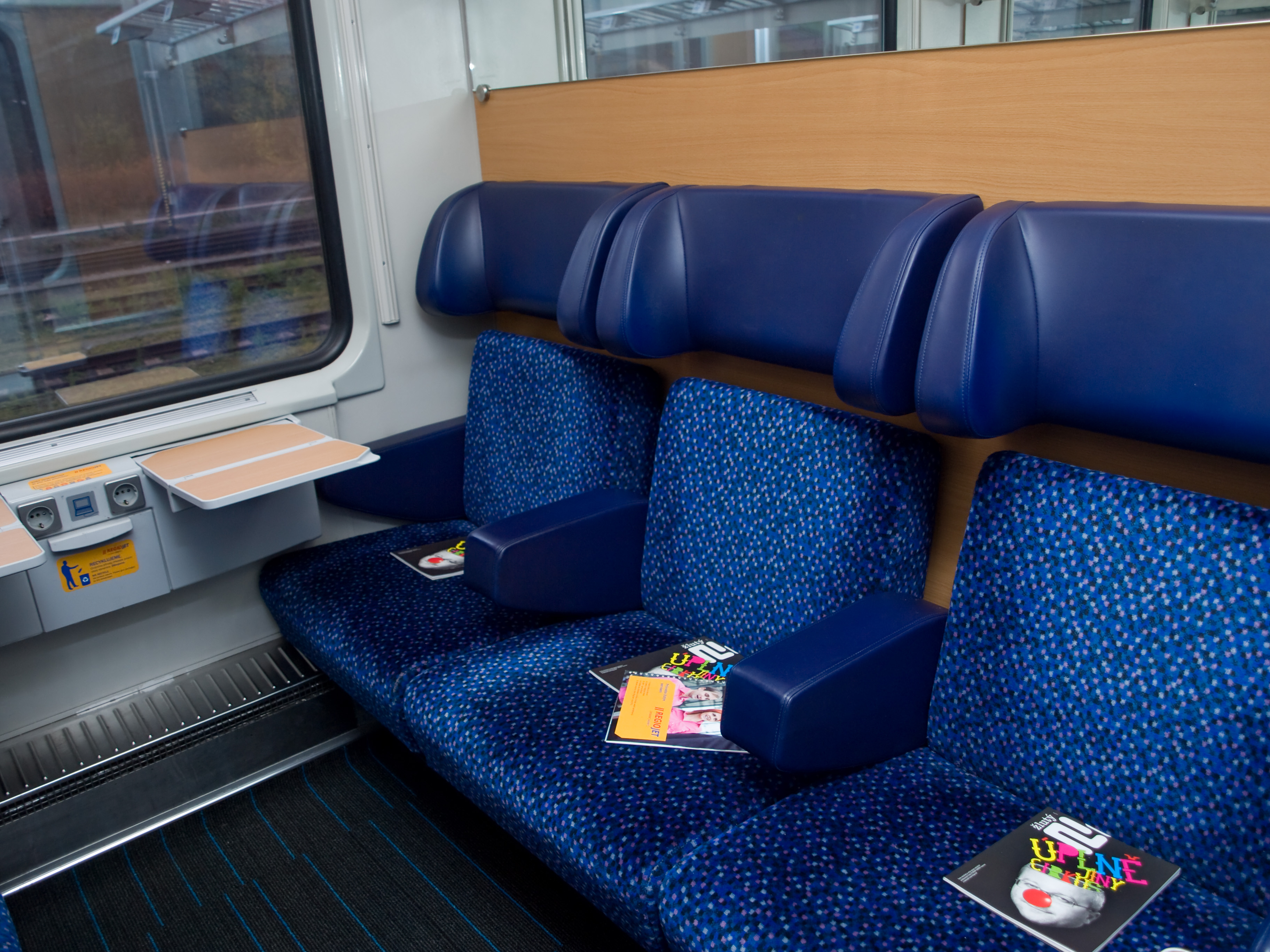 Interior of coach, train of RegioJet at Praha-Smíchov, severní nástupiště Tato série fotografií vznikla za laskavého svolení společnosti Student Agency – RegioJet